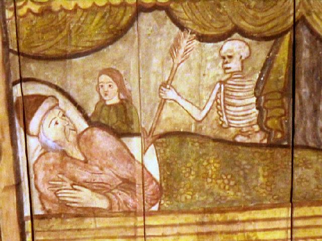 Deathbed Scene. St Mary's, Grandtully. St Mary's Church Grandtully (in State Care) has been disused for many years: a 17th century 'Barn Church', it is remarkable for its painted ceiling, the centrepiece of which is the Death Scene reproduced here